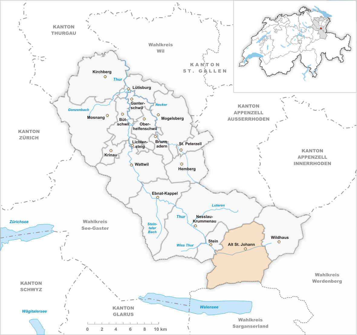 Municipality Alt St. Johann